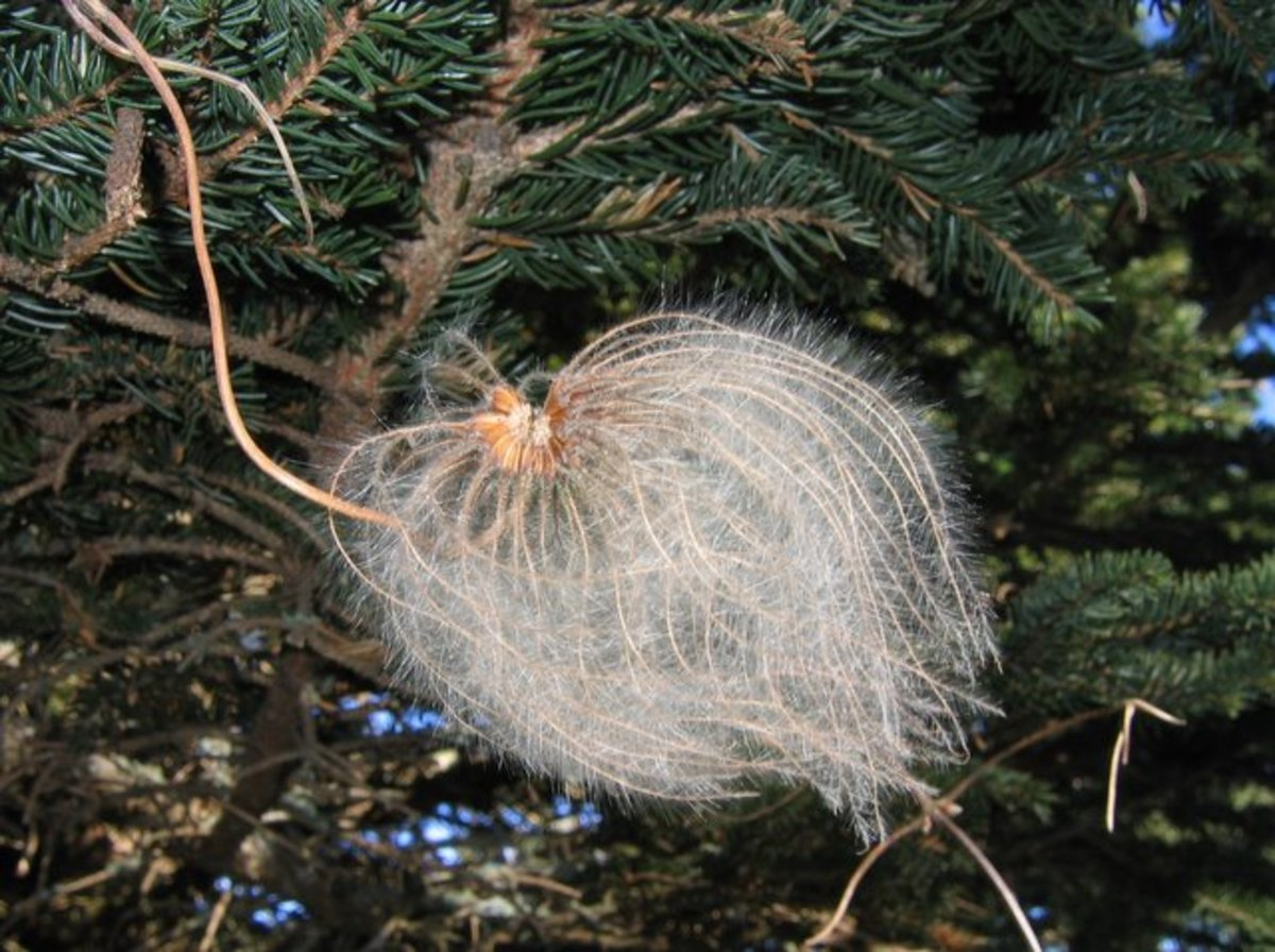 Planinski srobot na Veliki planini.